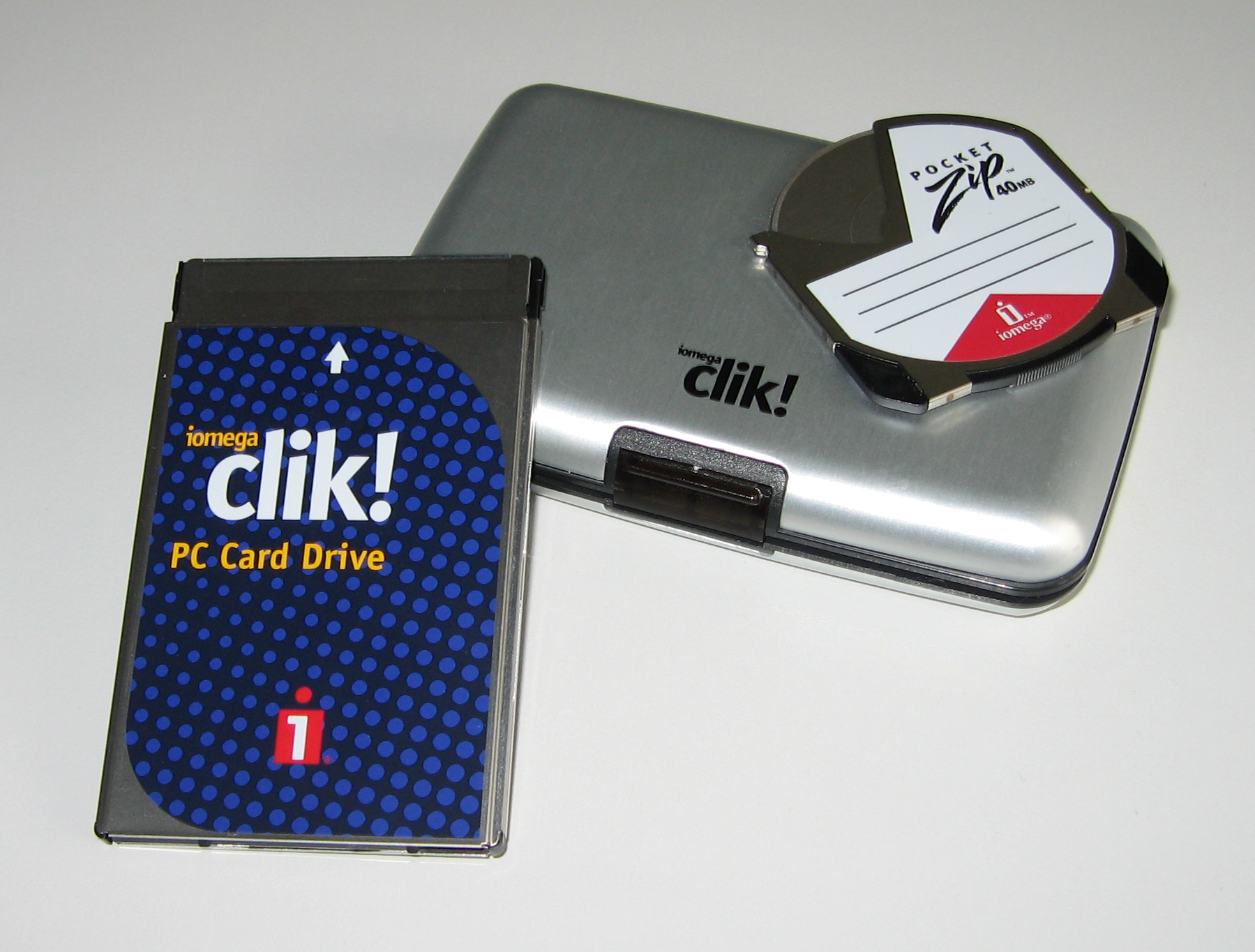 Iomega Clik! PocketZip PCMCIA drive, 40mb PocketZip disk and carrying case.